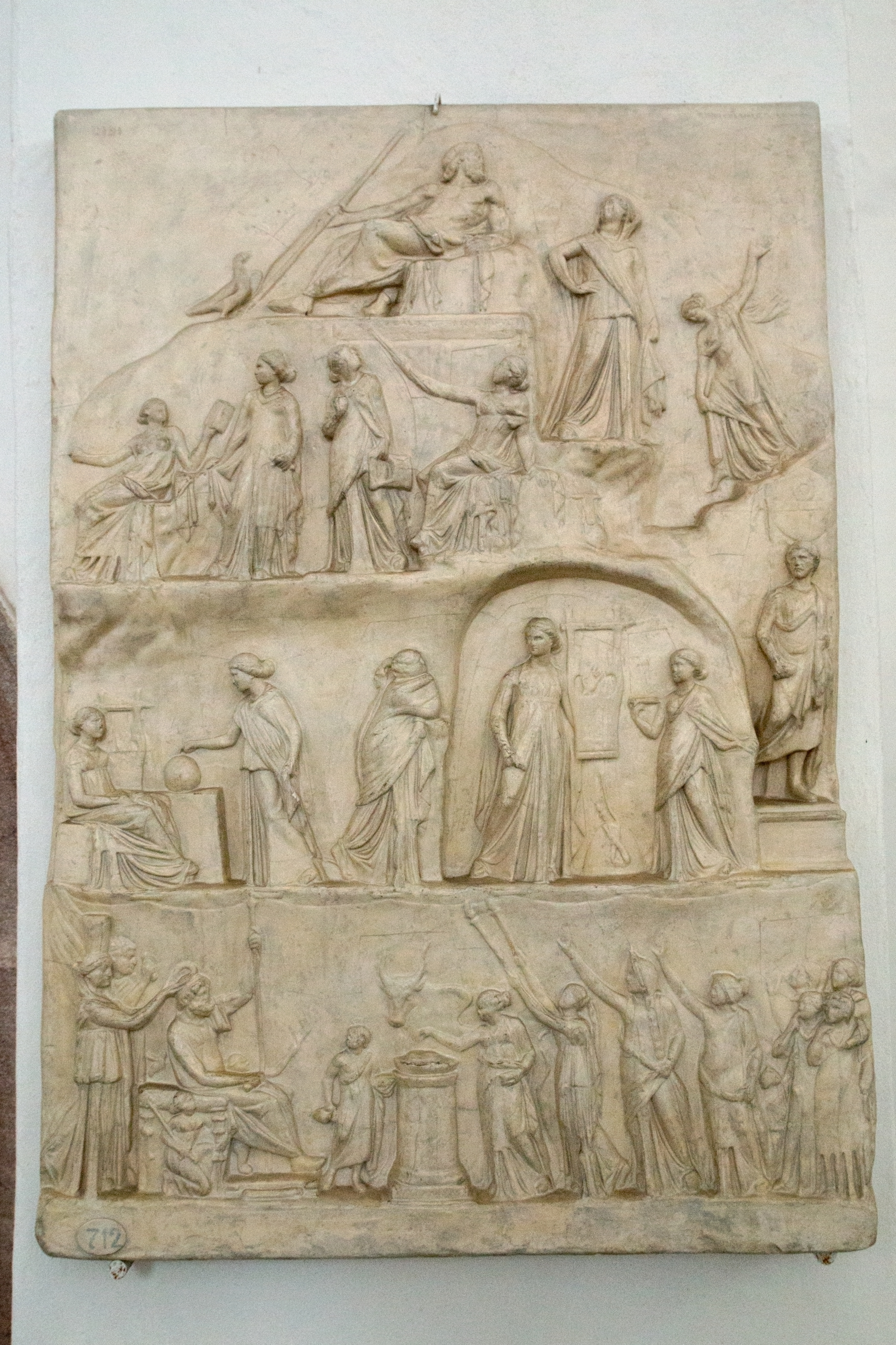 Archelaos of Priene, Apotheosis of Homer, 225-205 BC. Plaster cast. Gallery of Classical Art in Hostinné. Original: British Museum, GR. 1819.8-12.1 (Cat. Sculpture 2191).